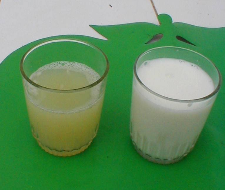 serous exsudate from udder in E. coli mastitis in cow (left), in comparaison to normal milk (right) Walon: aiwieus sûna del tete d' ene vatche avou del mamite ås colibaciles (hintche), dilé do laecea normå (droete)